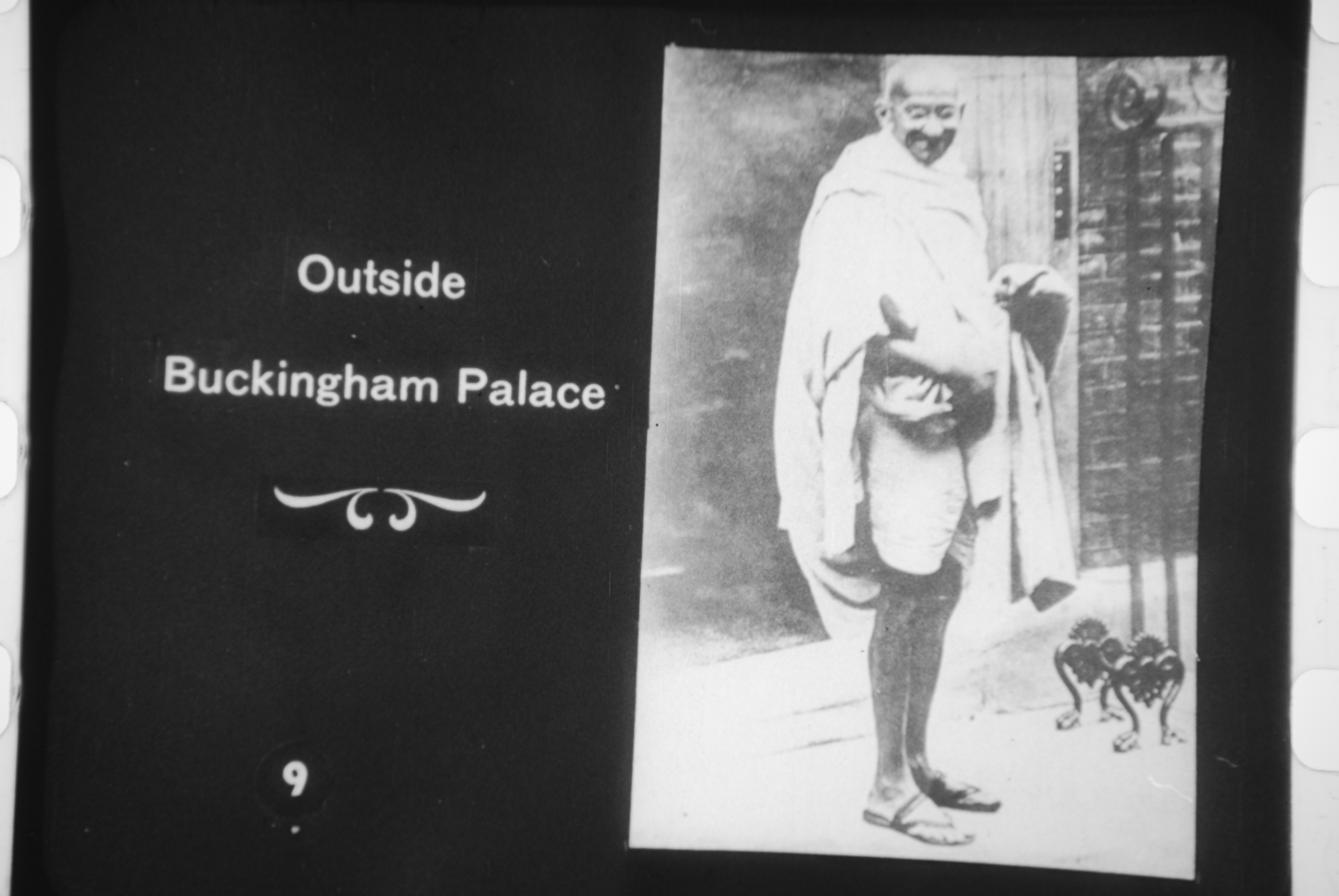 Gandhi outside Buckingham Palace, London, 1931.